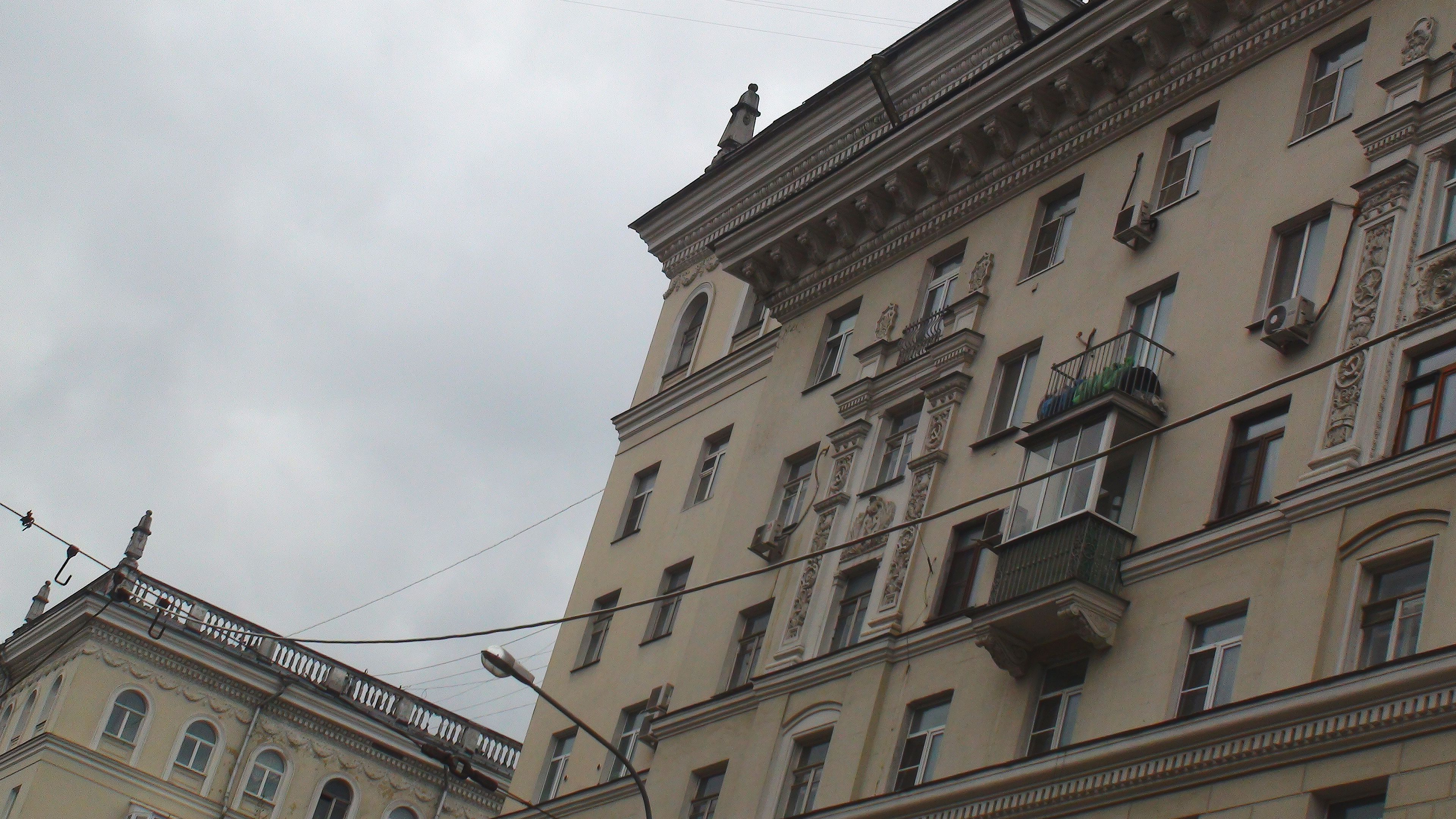 1 Novopodmoskobni Pereulok